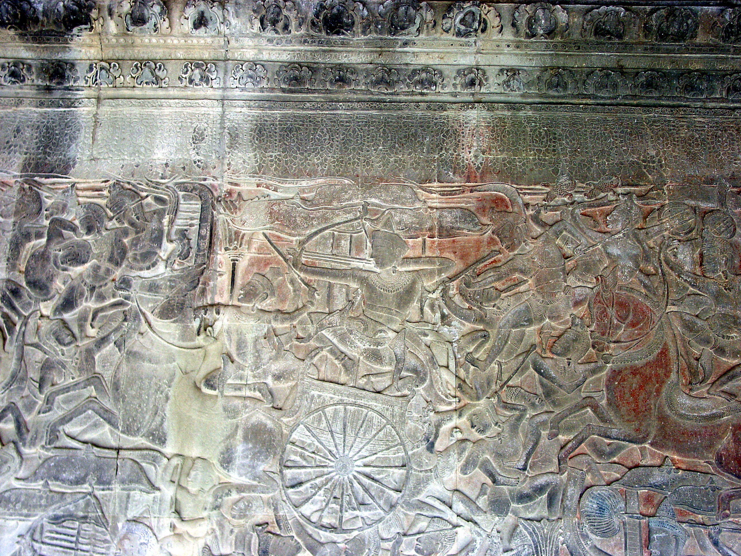 Krishna drives Arjuna's chariot at the Battle of Kurukshetra, while Arjuna shoots three arrows at once from his magical bow.